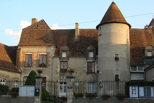 Mairie of Cluis in an old castle.